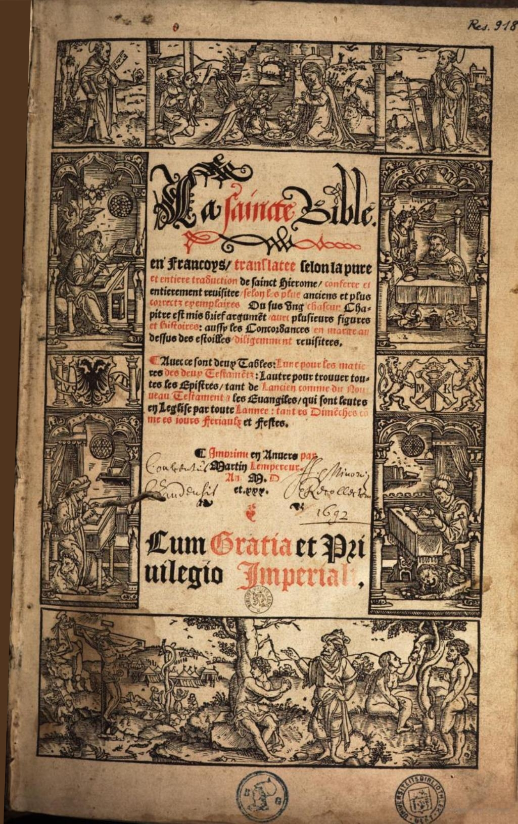 Bible de Lefèvre d'Étaples, 1530. I cropped some superfluous parts of the scan on the left.